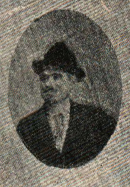 Tosho Ivanov, IMARO